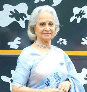 Waheeda Rehman snapped on the sets of Dance India Dance